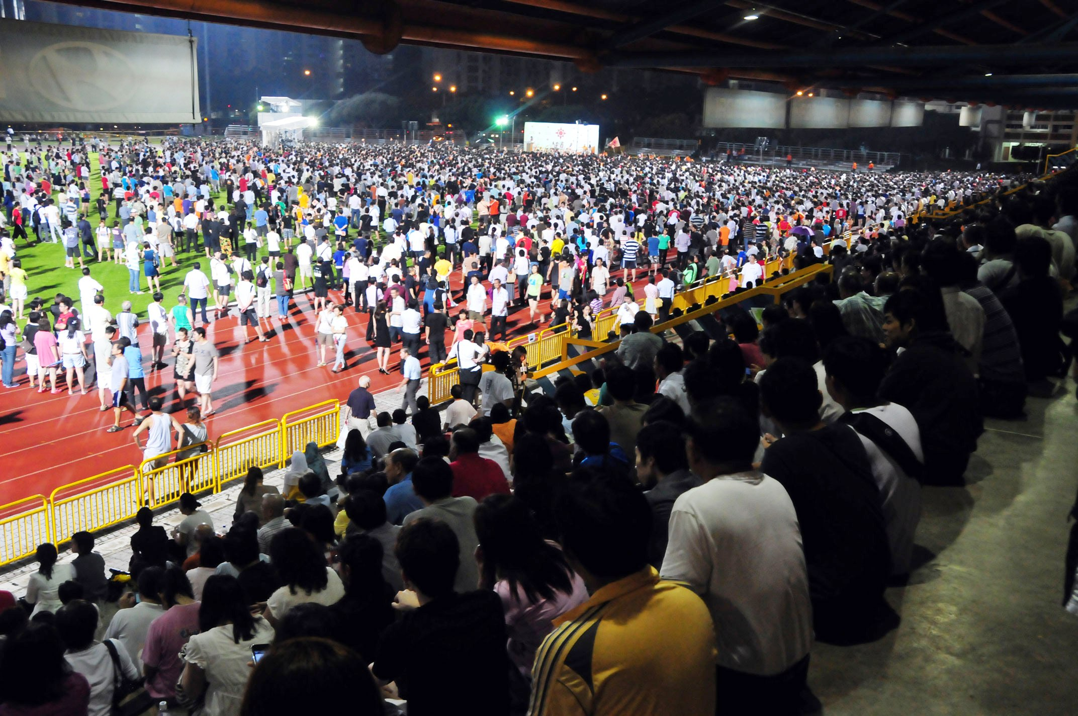 A political rally by the National Solidarity Party at Tampines Stadium, Singapore, for the Singaporean general election, 2011.